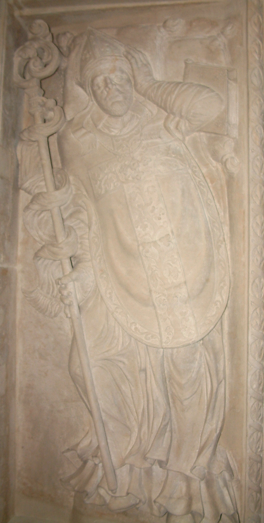 Tomb of bishop Łukasz Kościelecki in Poznań Archcathedral Basilica of St. Peter and St. Paul